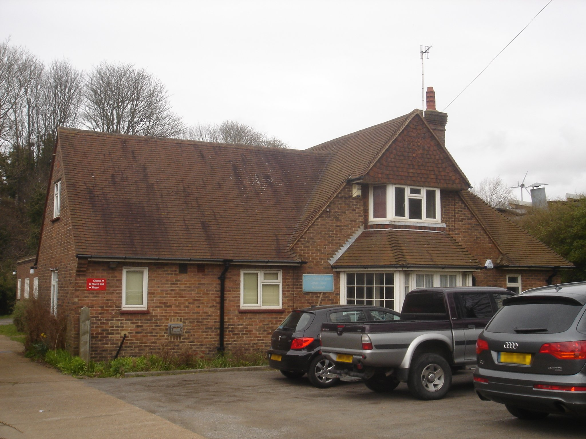 St Francis of Assisi Roman Catholic Church, Moulsecoomb Way, Moulsecoomb, City of Brighton and Hove, England. Formerly an Anglican church; converted in 1953.